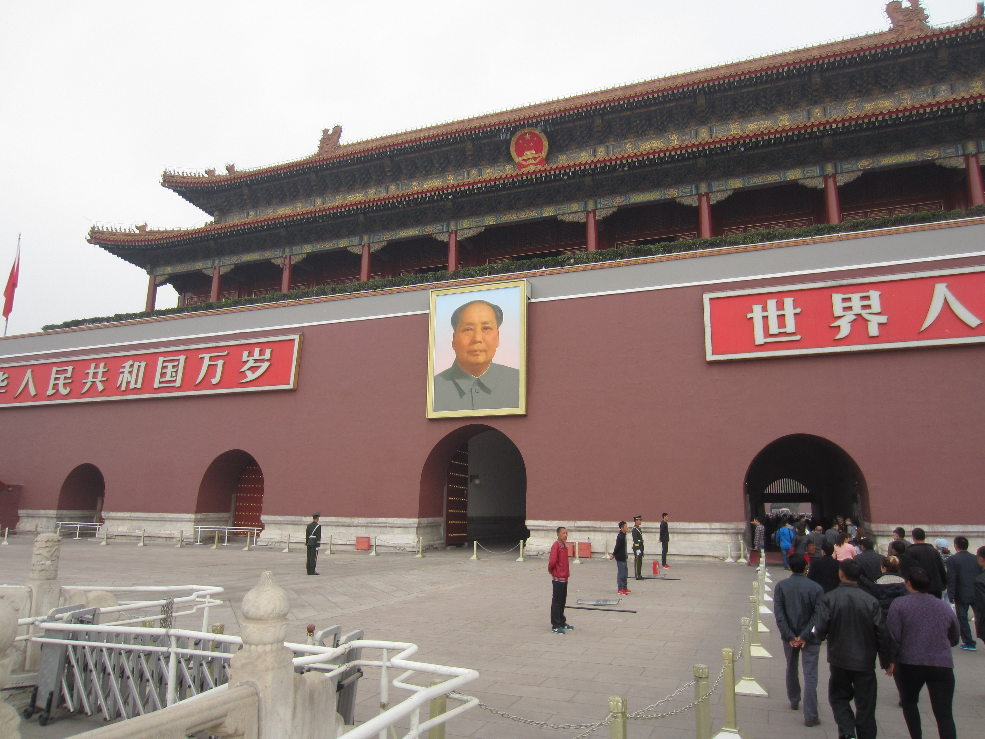 Portrait of Chairman Mao on Tiananmen Gatetower.